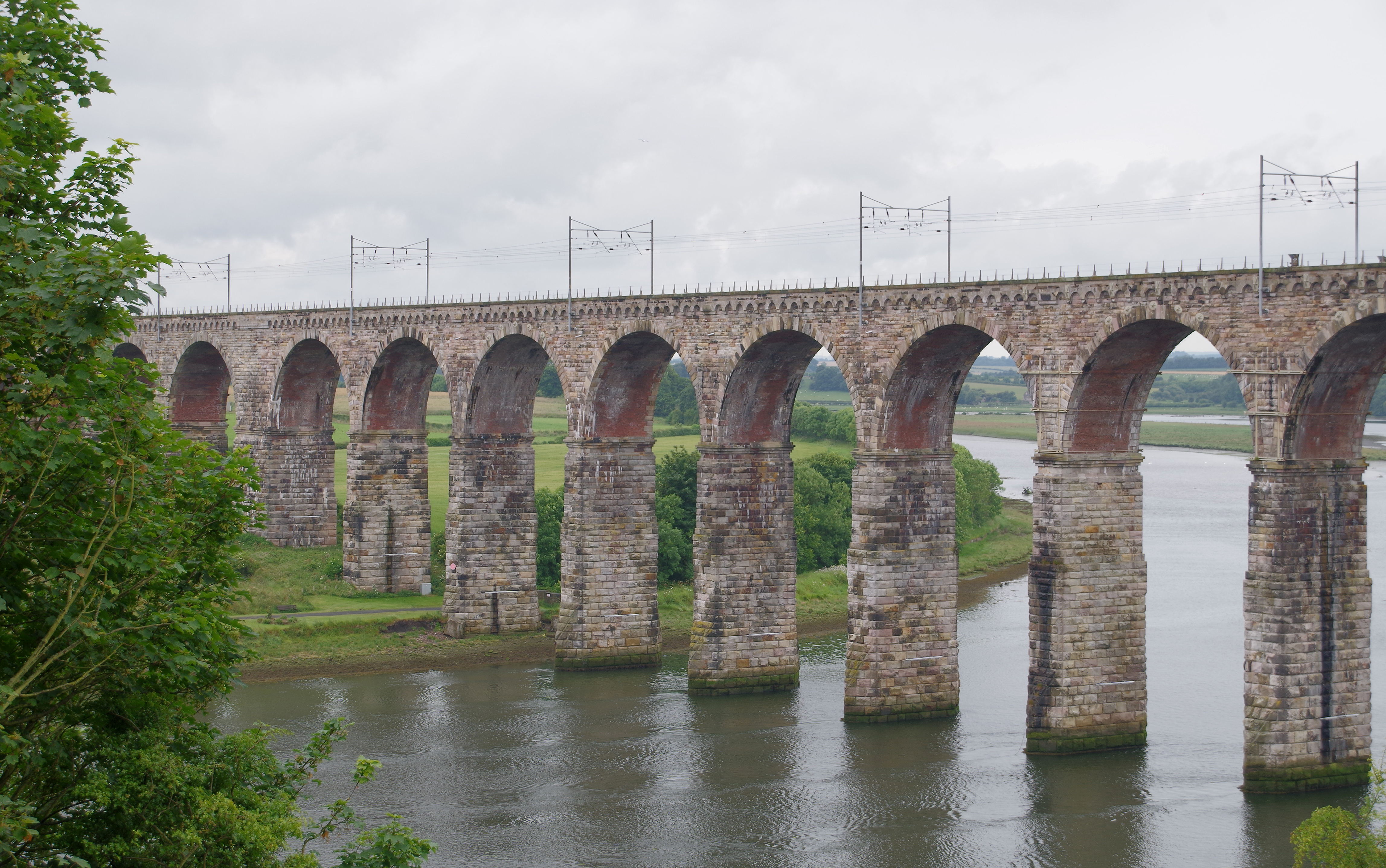 The East Coast Main Line's Royal Border Bridge at Berwick-upon-Tweed.